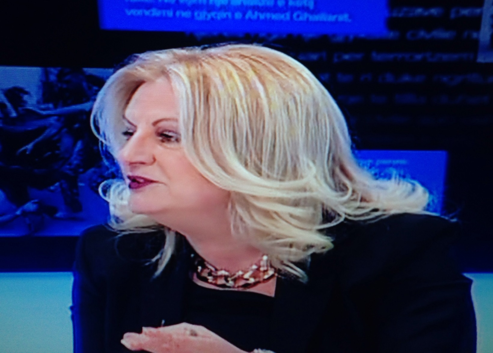 photo of Edita TahiriShqip: fotoja e Edita Tahirit